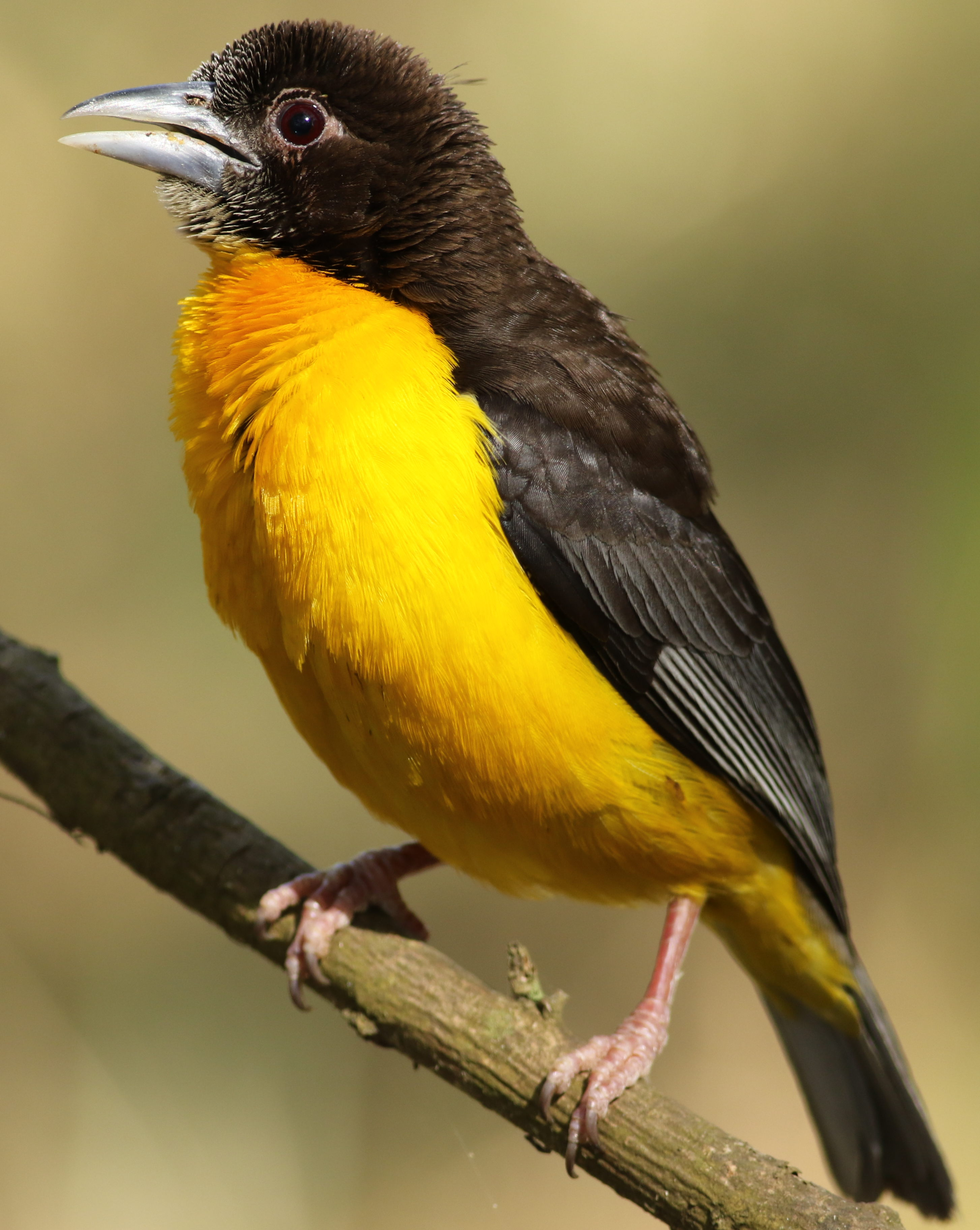 Dark-backed weaver, Ploceus bicolor, also known as the forest weaver at Ndumo Nature Reserve, KwaZulu-Natal, South Africa